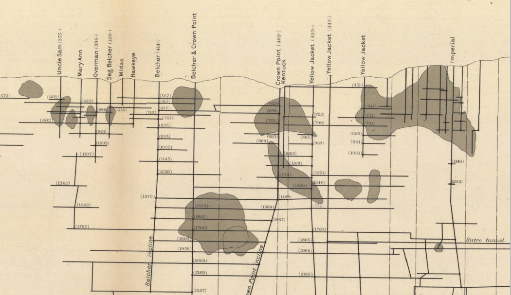 ComstockShafts2